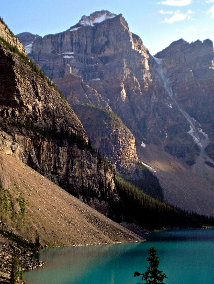 Mount Bowlen and Moraine Lake in August 2009. Canadian Rockies. Banff National Park